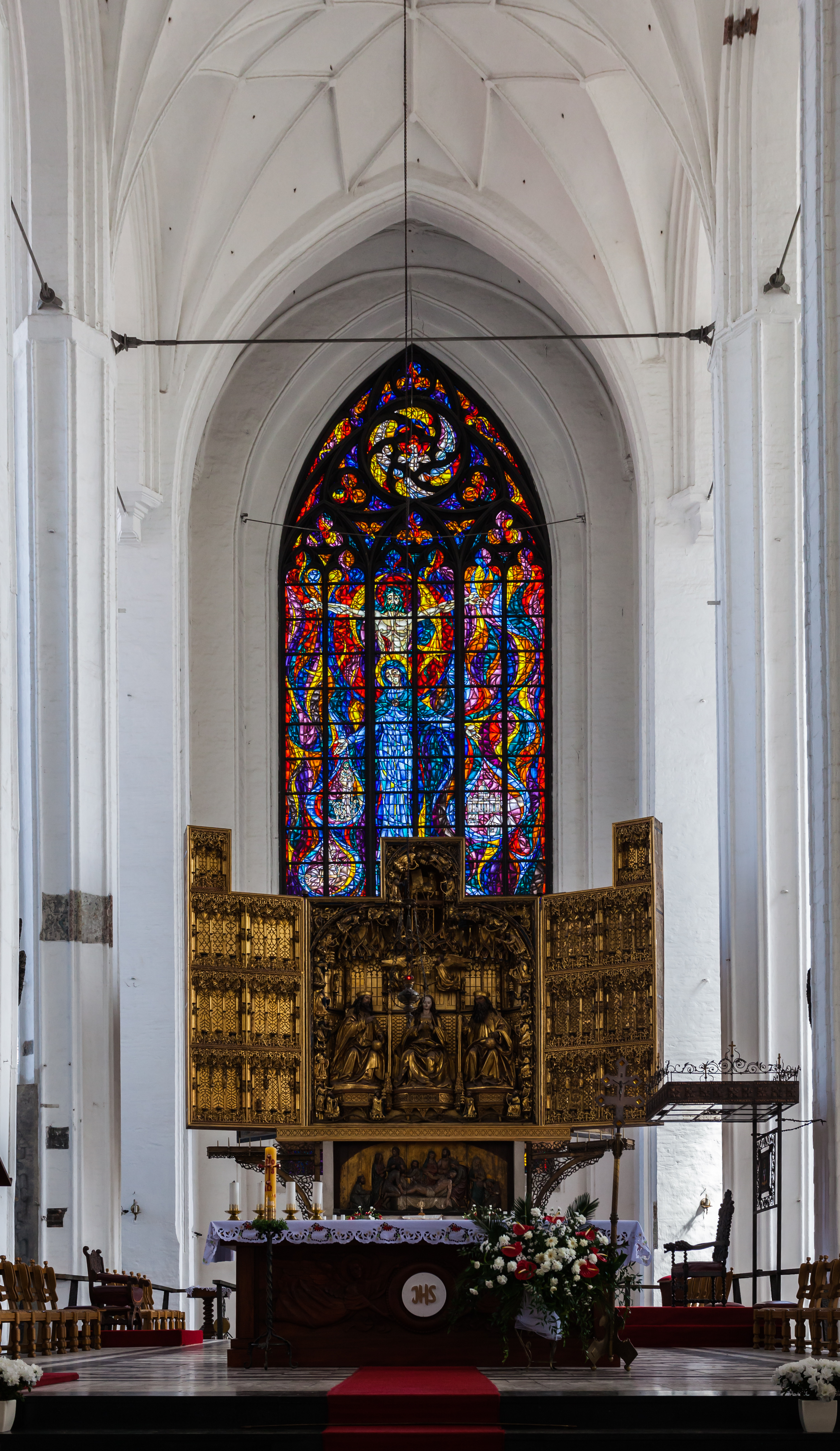 Church of St Mary, Gdansk, Poland